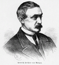 Heinrich von Maltzan (1826-1874), german traveller, orientalist and writer.